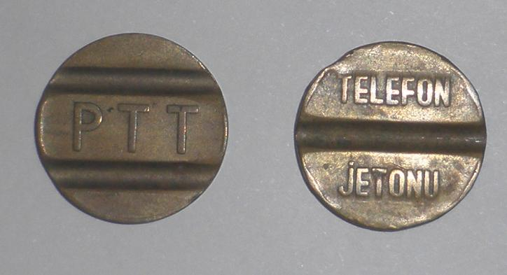 Turkish telephone (PTT) coin from the 90's